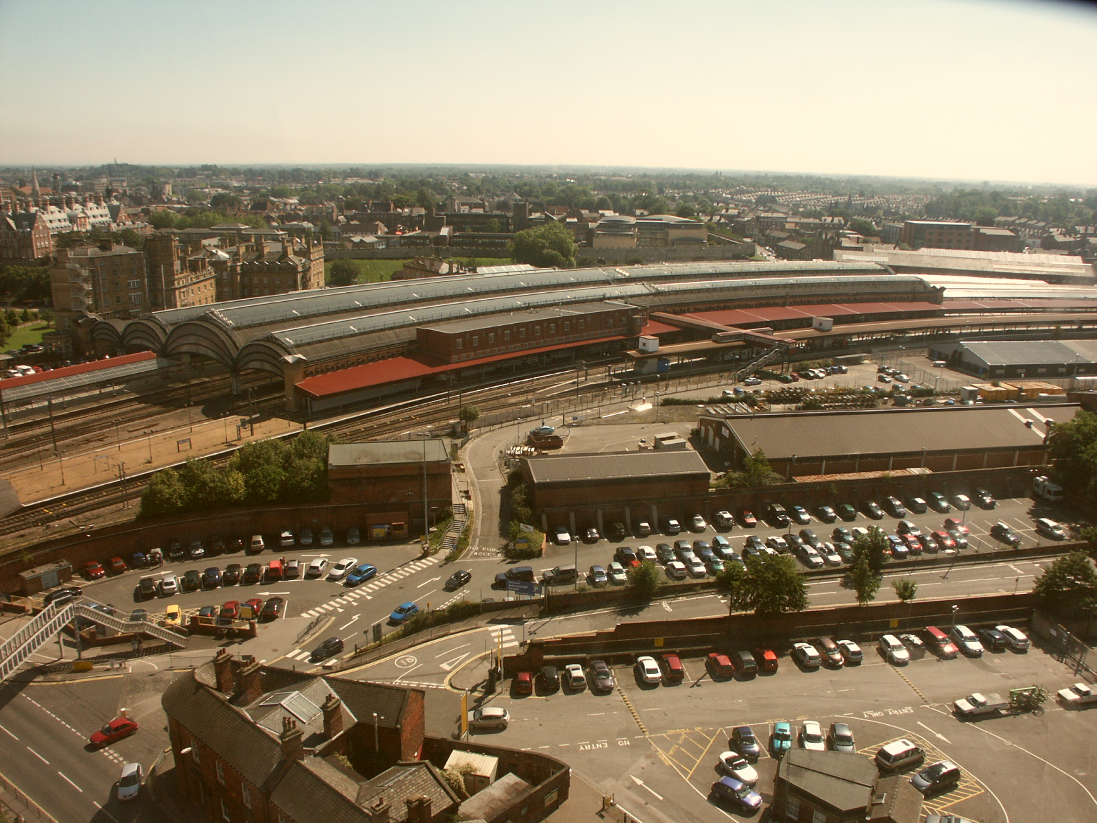 Aerial view of York Railway Station looking east